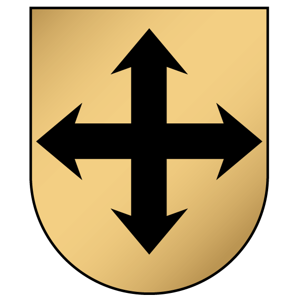 Emblem of the - 33rd Waffen Cavalry Division of the SS (3rd Hungarian).